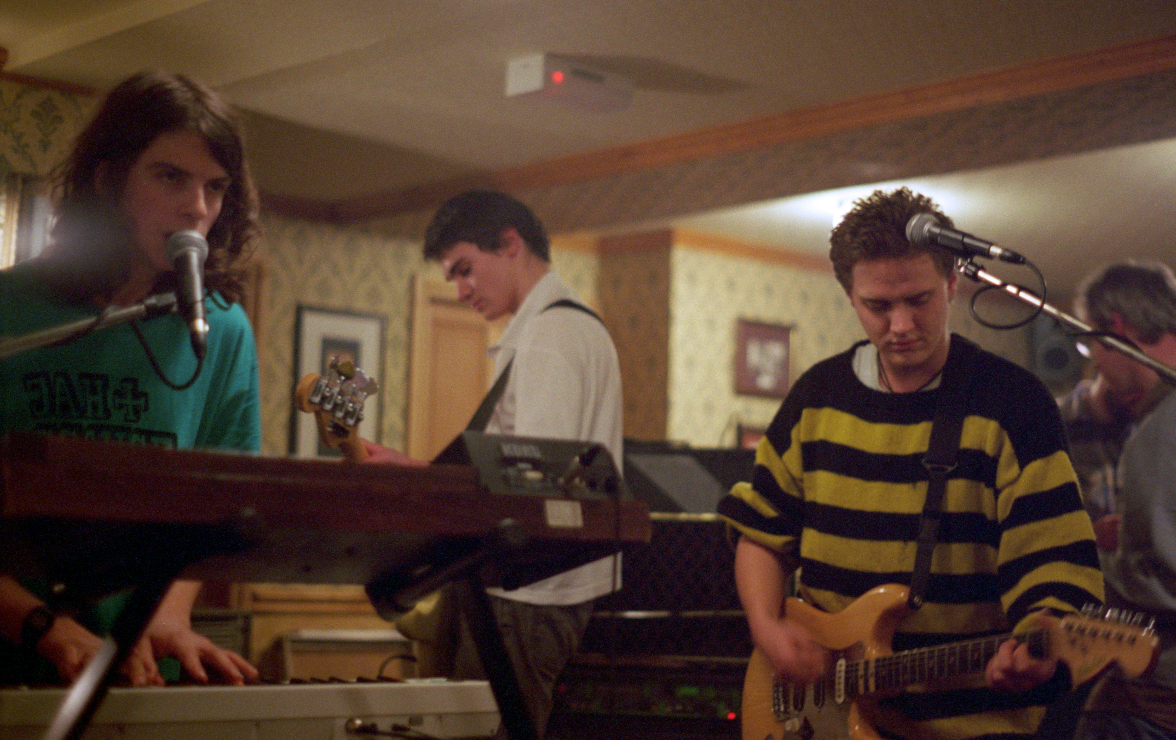 Gorky's Zygotic Mynci. Concert at The Turff, Wrexham. December 1995. Image by Medwyn.